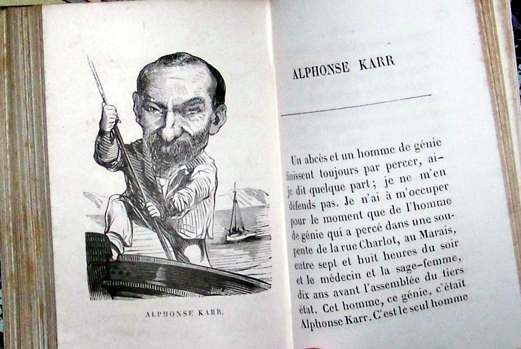 Illustration des Binettes contemporaines de Commerson.